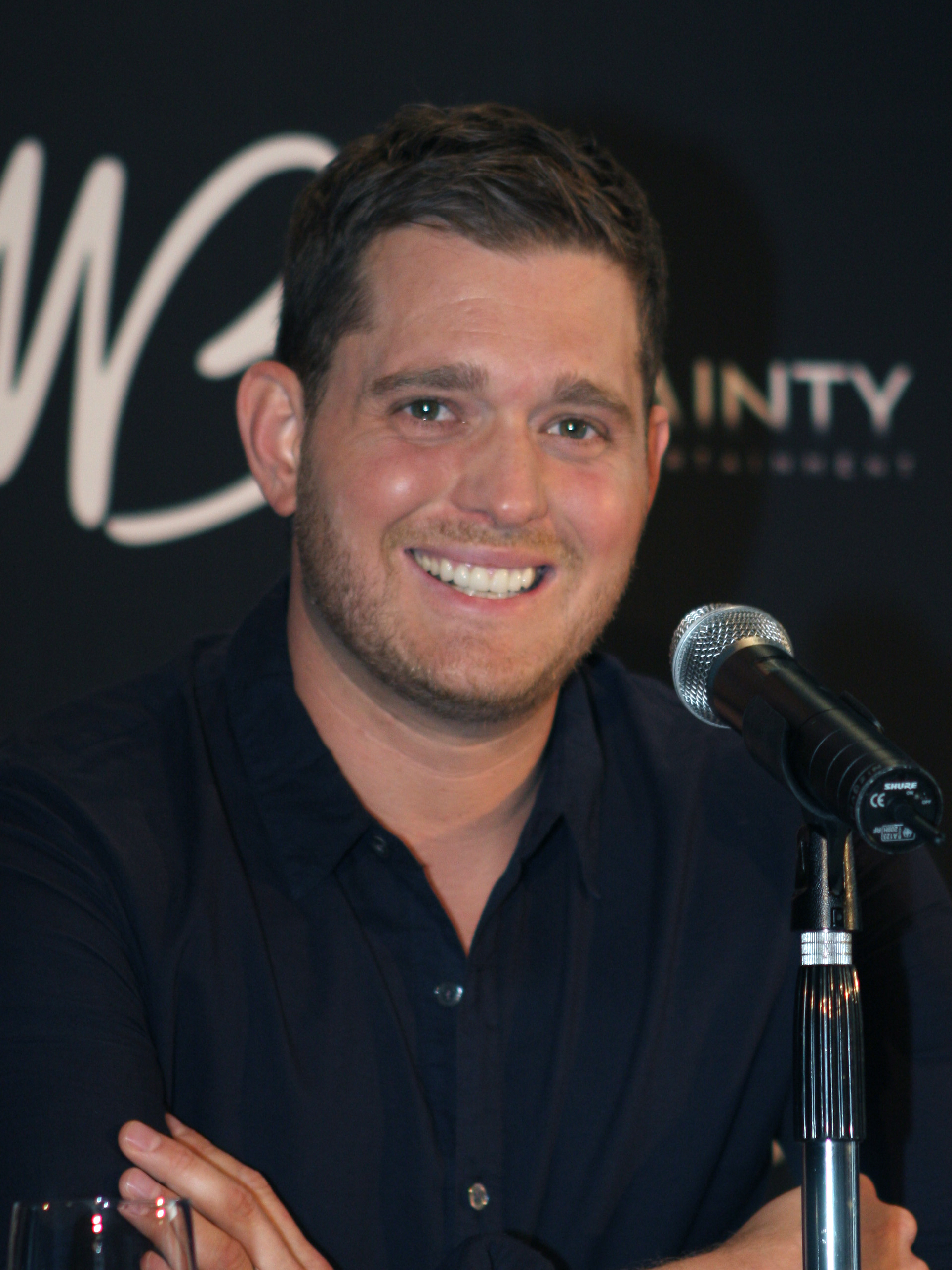 Michael Bublé performing in Sydney, Australia in February 2011.